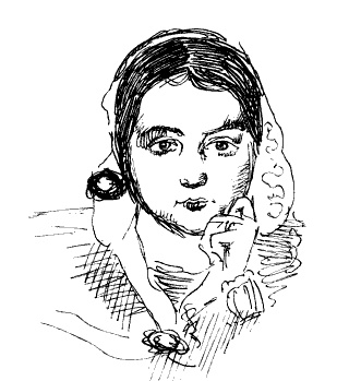 Eleonora (or Eleonore) Christine Tscherning, née Lützow (1817-1890), Danish painter